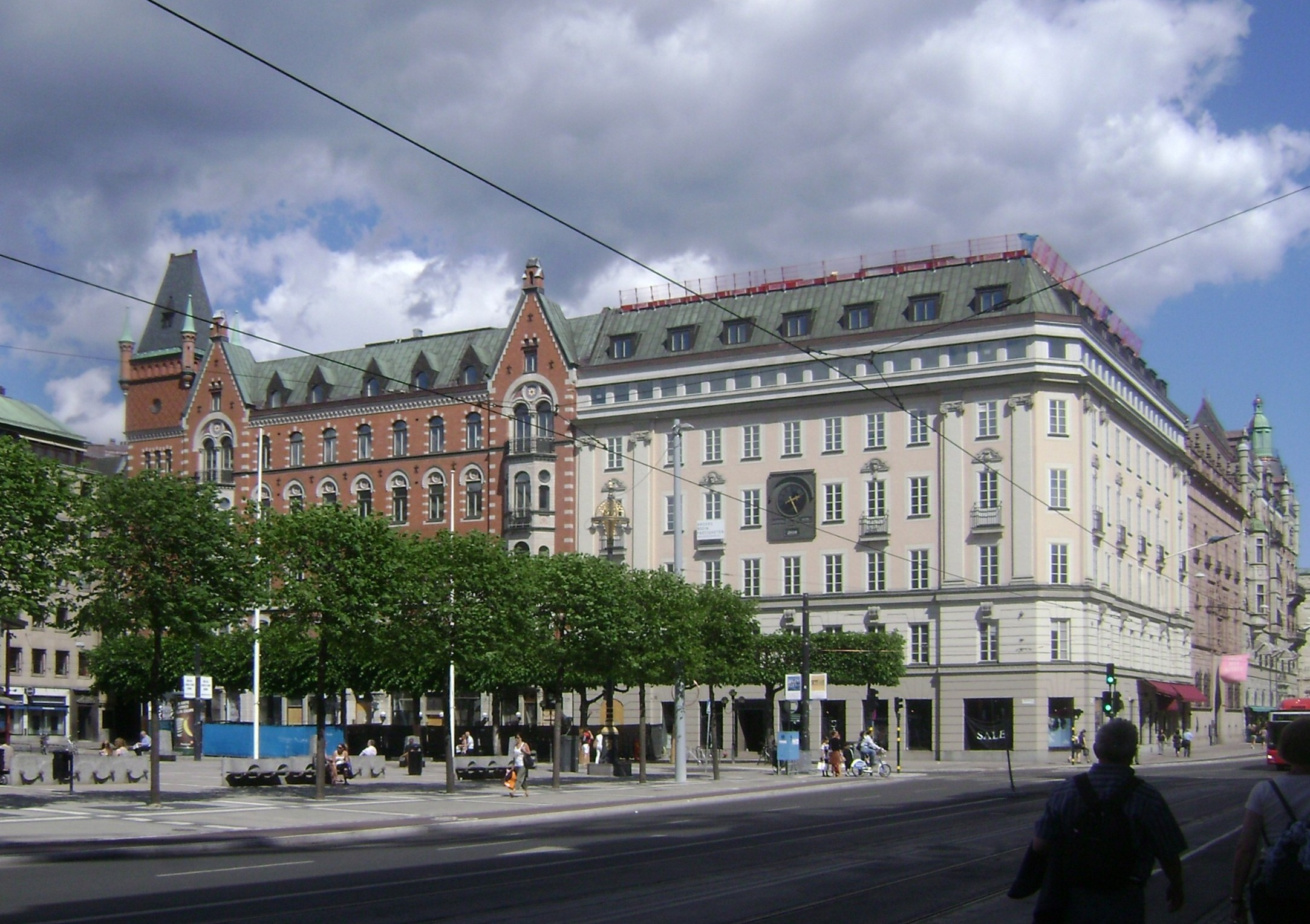 Sweden. Stockholm. Norrmalm